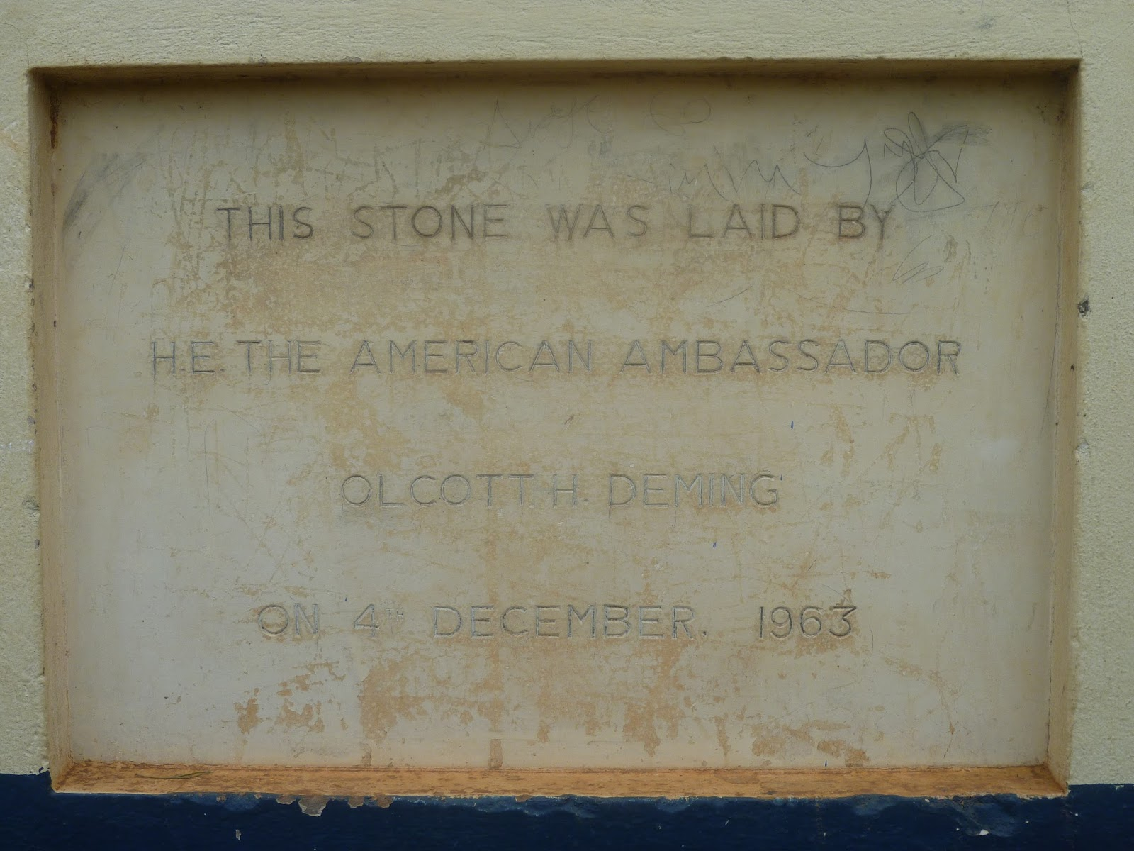 Photograph of the foundation stone taken in 2015 at the Kennedy Hall, Kigezi College Butobere (SINIYA).